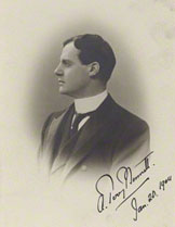 Andrew Percy Bennett by Fratelli D'Alessandri, 1904